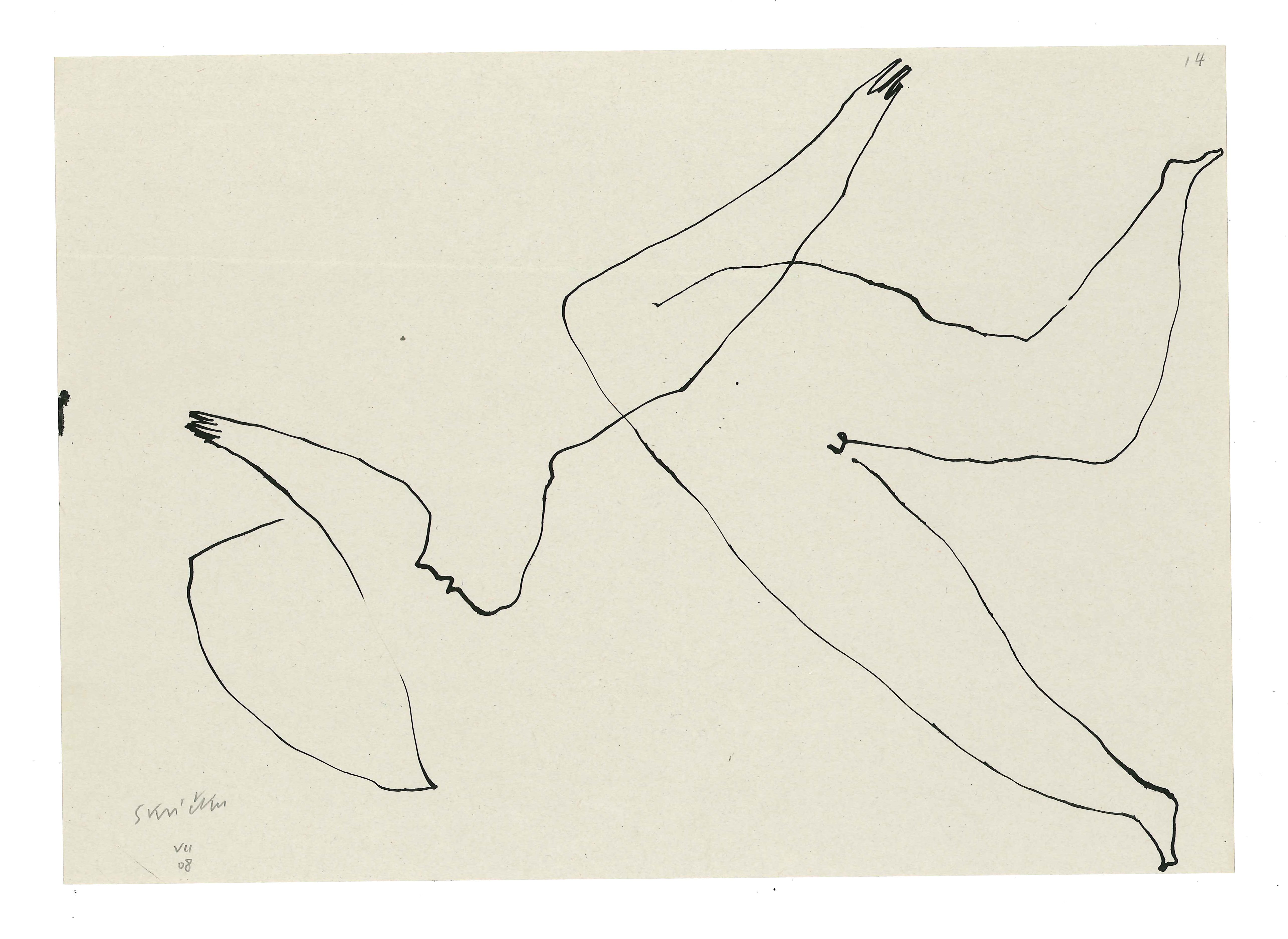 Online 2008